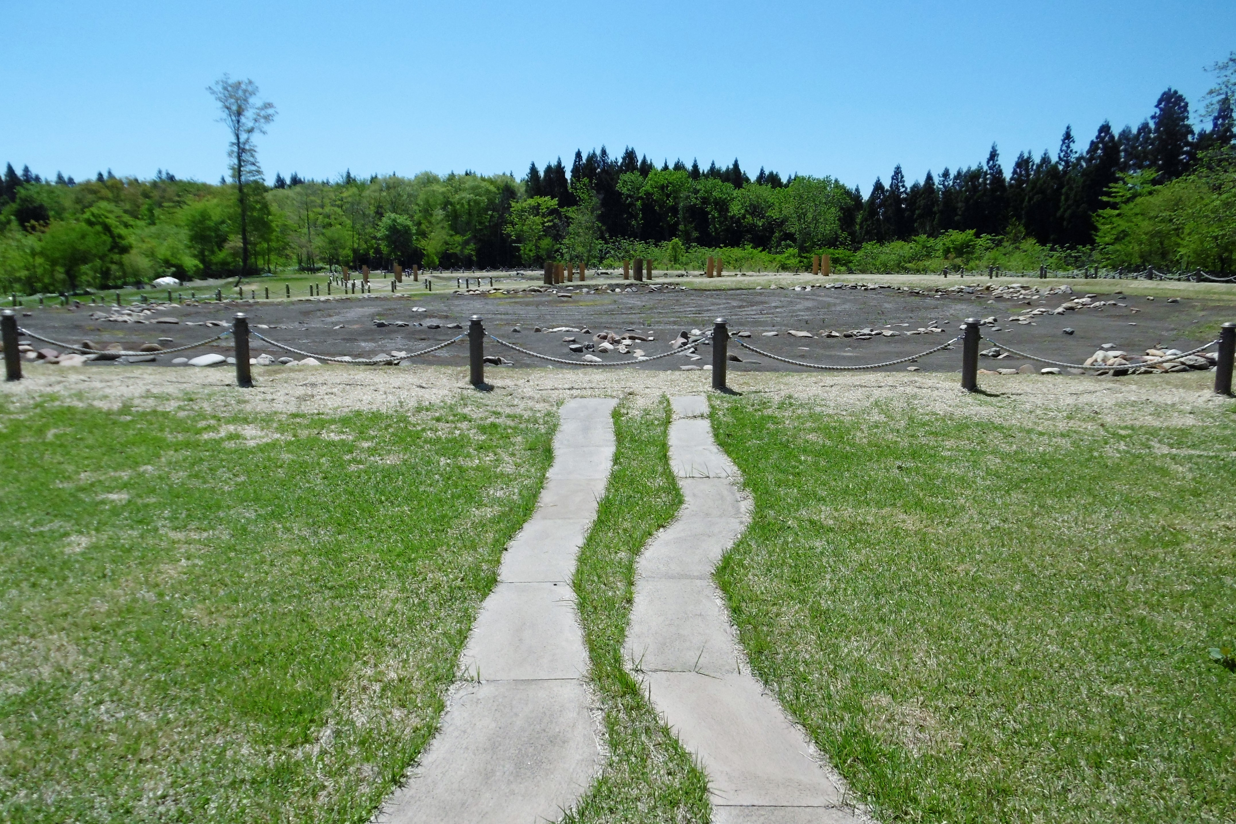 Stone circle A at the Isedotai Site in Kitaakita City, Akita Prefecture, Japan